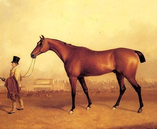 Emilius,winner of the 1832 Derby, with a groom at Doncaster (?). Painting by William Tasker (1805-1852). Artist has been dead for 160 years.